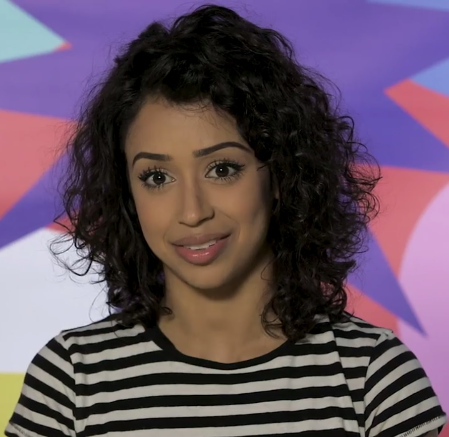 Refinery29 Lucie Fink and Youtube influencer Liza Koshy challenge each other to define popular internet slang words.